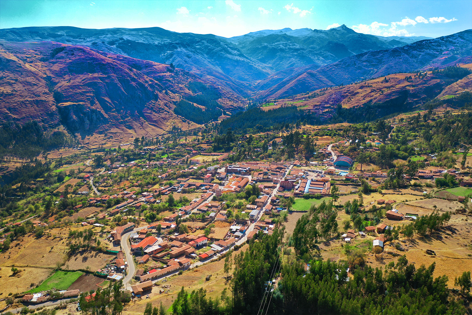 The town of Chinchaypujio as seen from the air